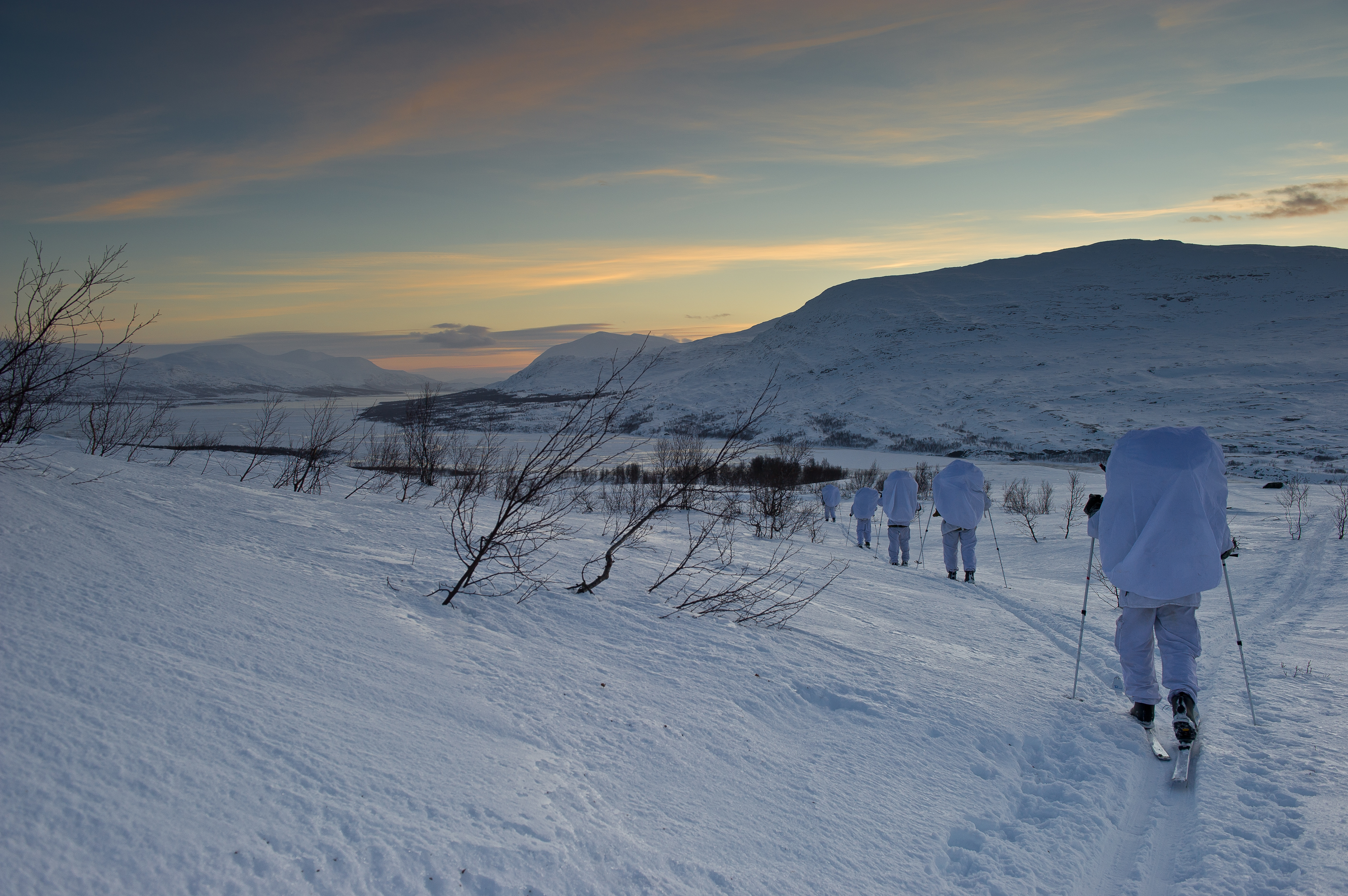 Soldiers from Intelligence Battalion on skipatrol at AltevatnNorsk bokmål: Soldater fra Etterretningsbataljon på skipatrulje ved Altevatn